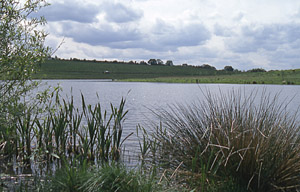 A view of pond at Sence Valley Forest Park